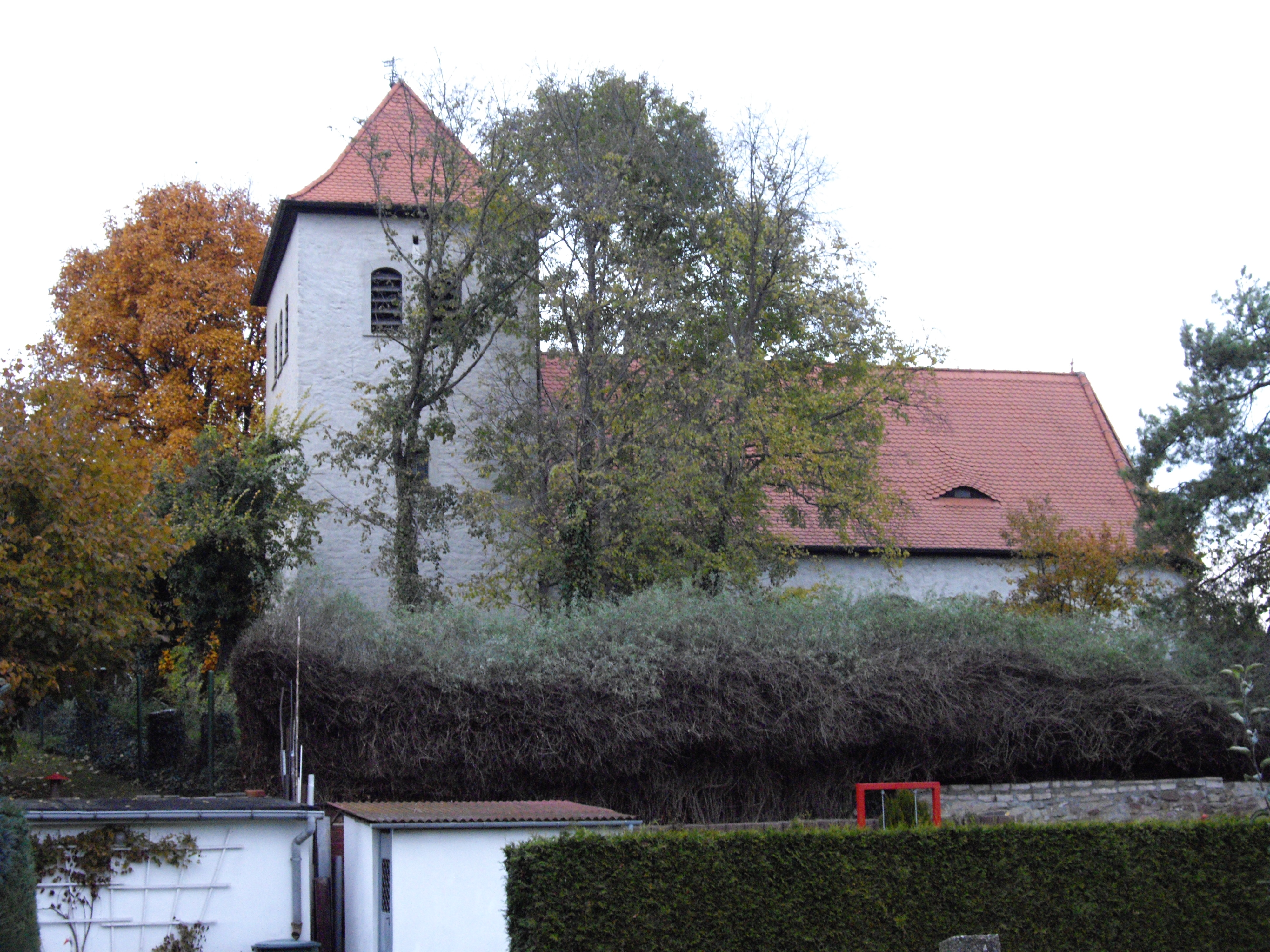 the church in Zabenstedt in Germany